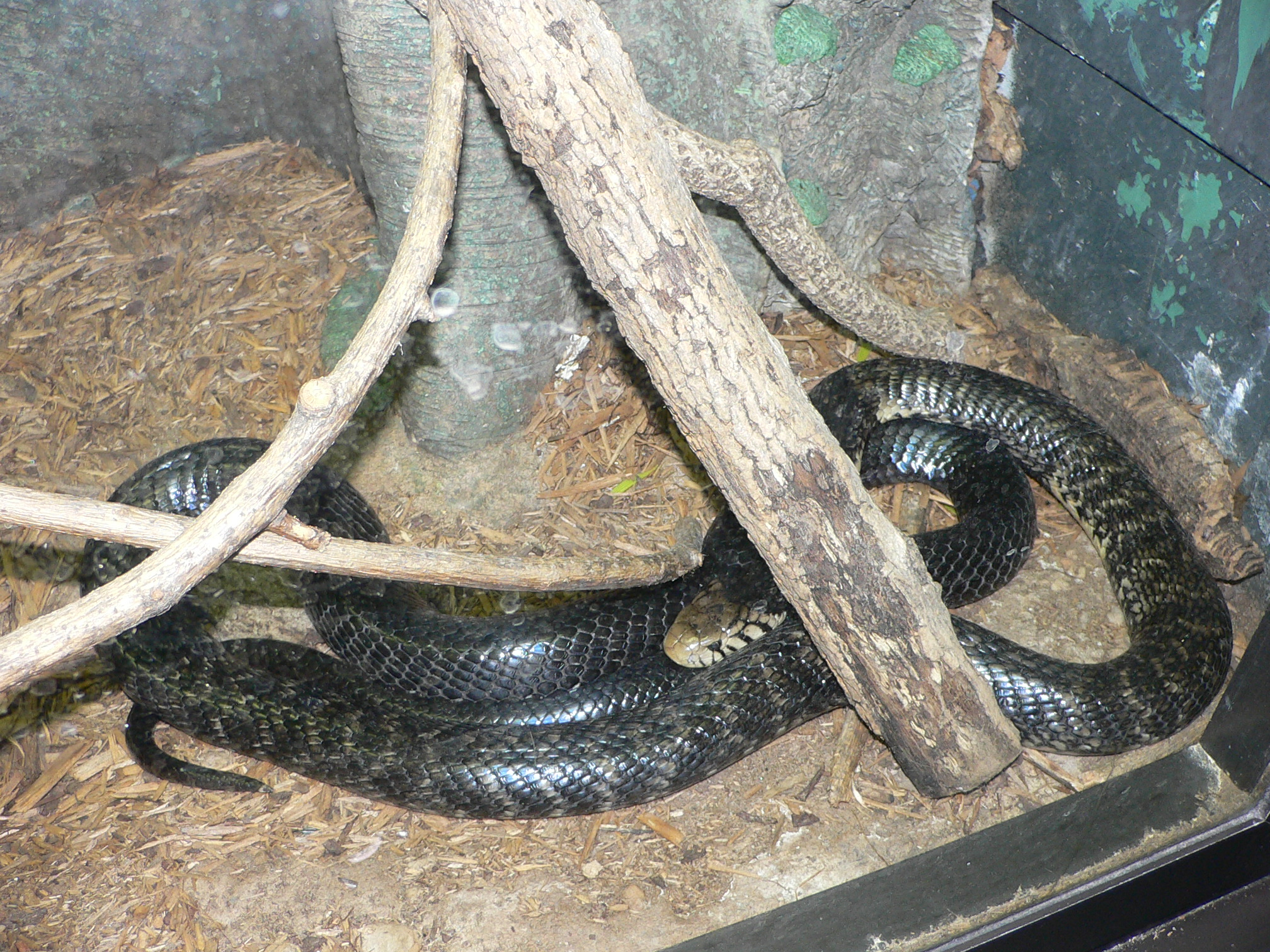 Black and White Cobra at Philadelphia Zoo.